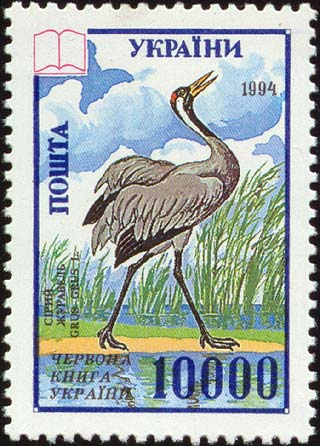 Stamp of Ukraine